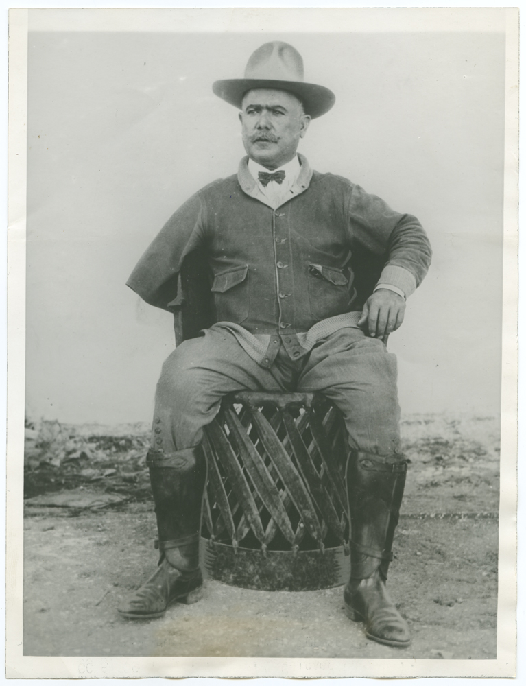 Title: [General Alvaro Obregon, President-Elect of Mexico] Creator: P & A Photo Date: July 2, 1928 Part Of: American border troops and the Mexican Revolution Place: Cajeune, Mexico Physical Description: 1 photographic print: gelatin silver; 22 x 17 cm File: ag1982_0015_065r_obregon_opt.jpg Rights: Please cite DeGolyer Library, Southern Methodist University when using this file. A high-resolution version of this file may be obtained for a fee. For details see the web page. For other information, . For more information and to view the image in high resolution, see: View the Mexico:Photographs, Manuscripts, and Imprints Collection